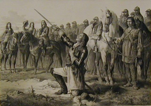 Johann von Sporck, cavalry commander in the Battle of Saint Gotthard